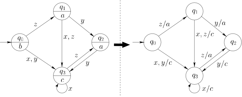 Example Moore-Automaton-to-Mealy-Automaton-Conversion made to replace the older (hand drawn) version in the article de.wikipedia.or/wiki/Moore-Automat